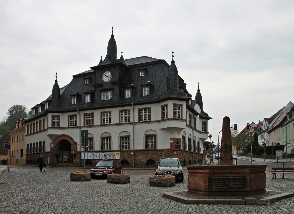 the townhall in Nossen.